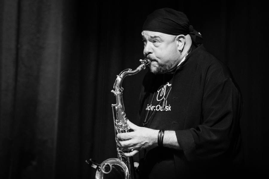 Bob Franceschini with Victor Wooten Trio at Cosmopolite. The concert took place on 27. October 2018 in Oslo. Lineup: Victor Wooten (bass guitar) Dennis Chambers (drums) Bob Franceschini (saxophone and flute)